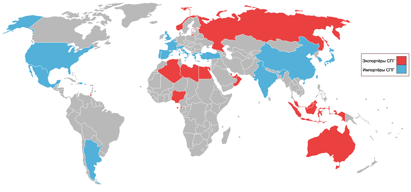 Liquefied natural gas (LNG) exporting and importing сounrties as for 2009